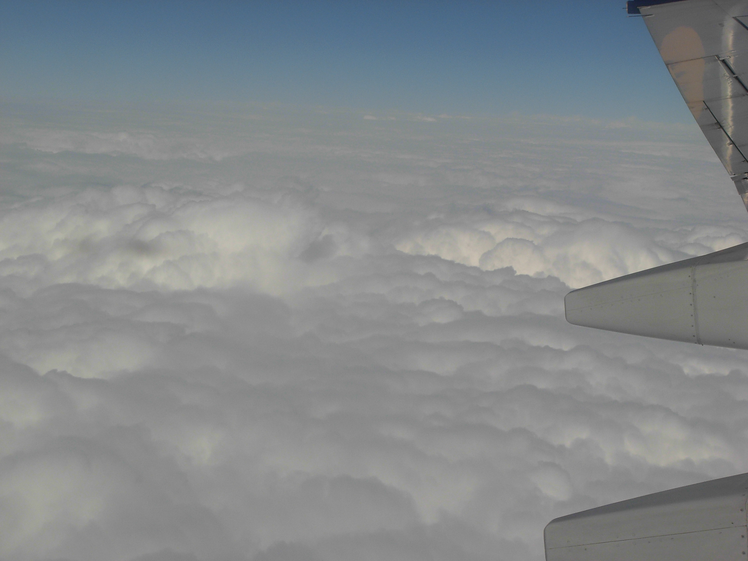 Clouds as seen from an aircraft